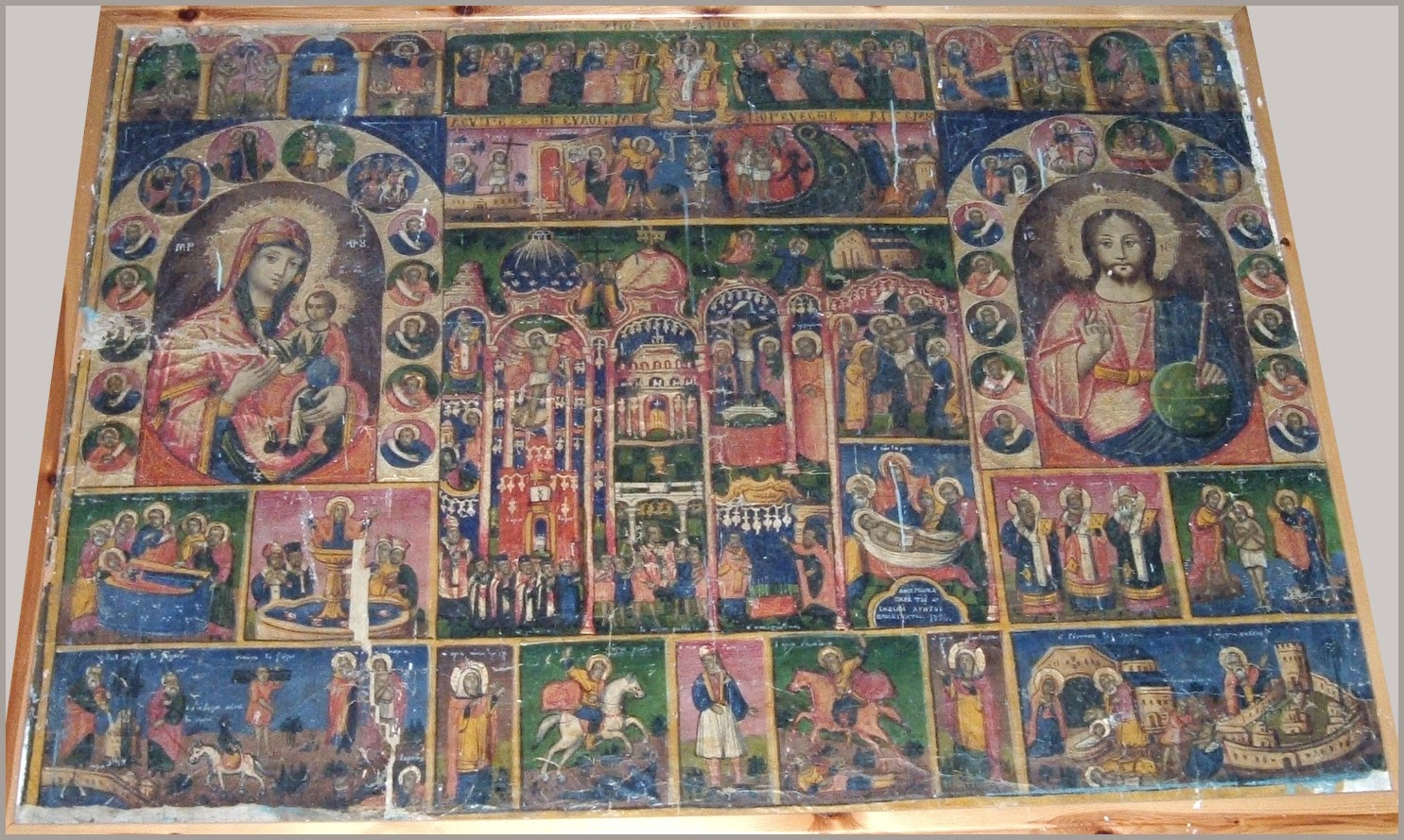 Icon in St. Athanasius Church in Makrochori